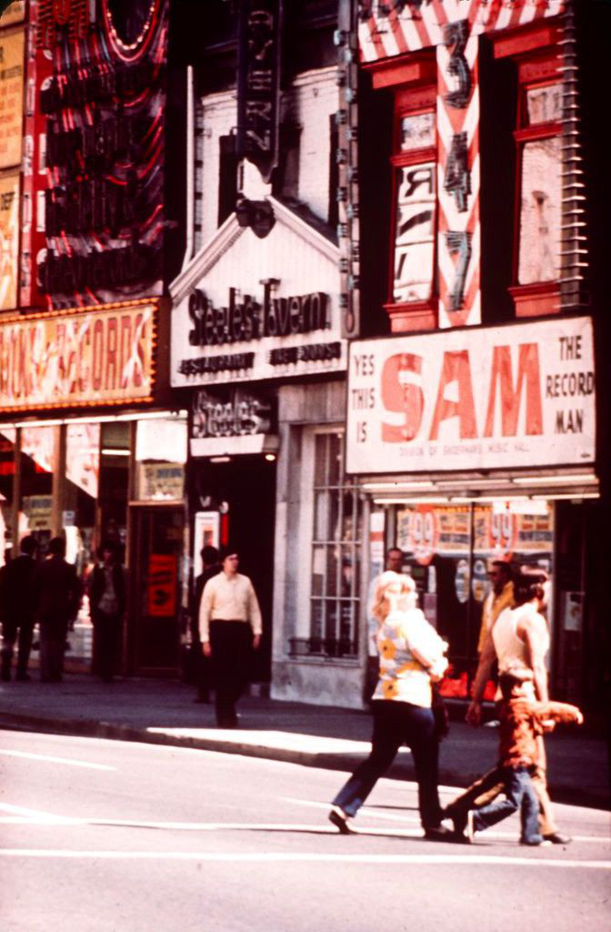 Steele's Tavern and Sam The Record Man on Yonge Street, Toronto, Ontario, Canada. Gordon Lightfoot was "discovered" playing at Steele's Tavern by Ian and Sylvia Tyson in 1964, while Sam The Record Man grew from this location into a chain of music stores (and this location grew to occupy much of the block, including the tavern site).